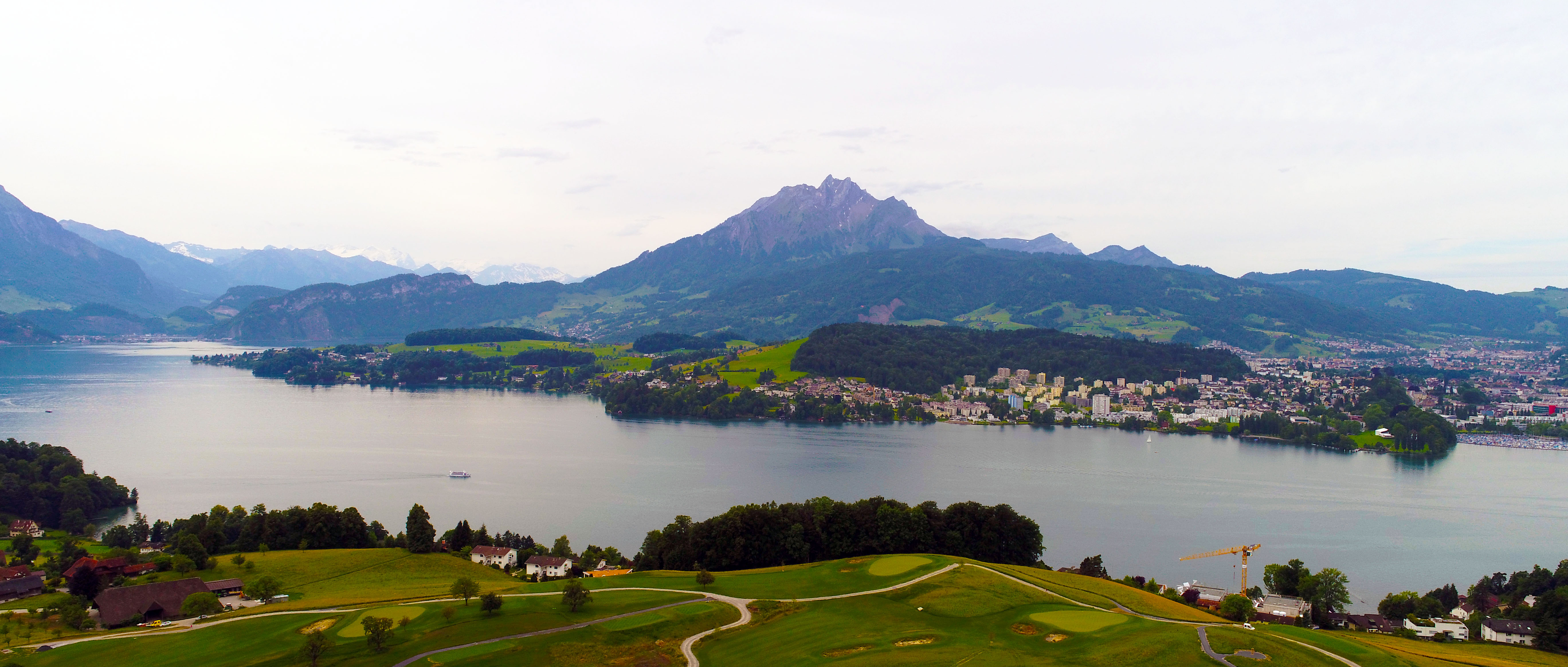 Mount Pilatus and Lake Lucerne